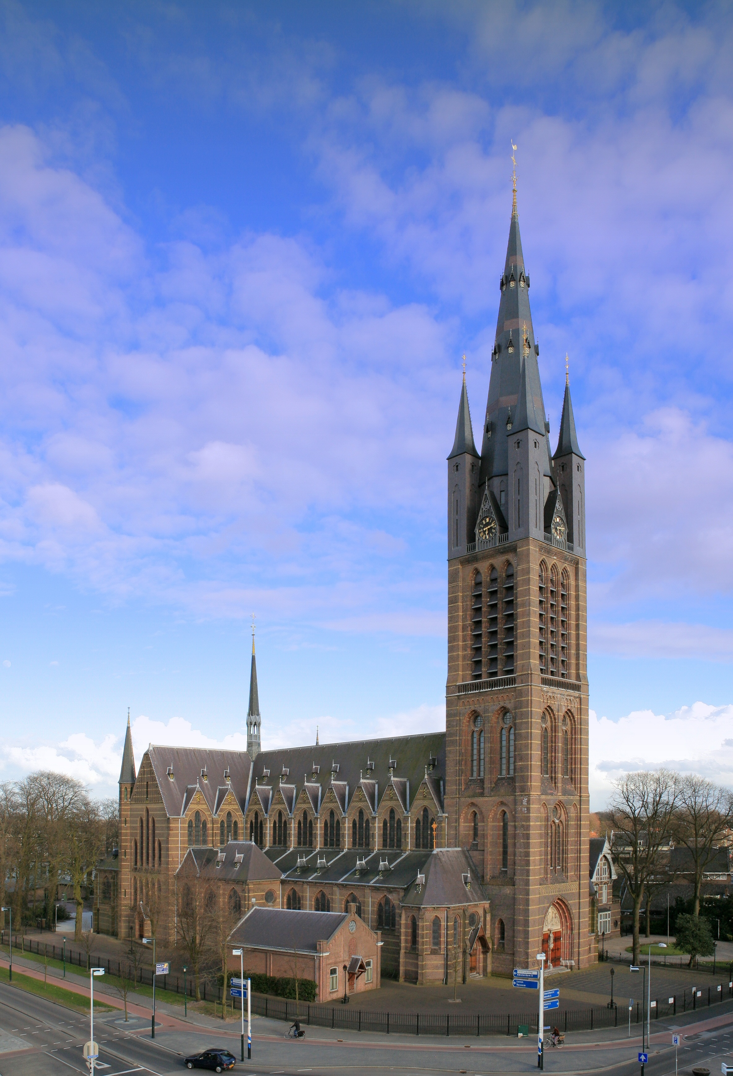 St. Vituschurch in Hilversum